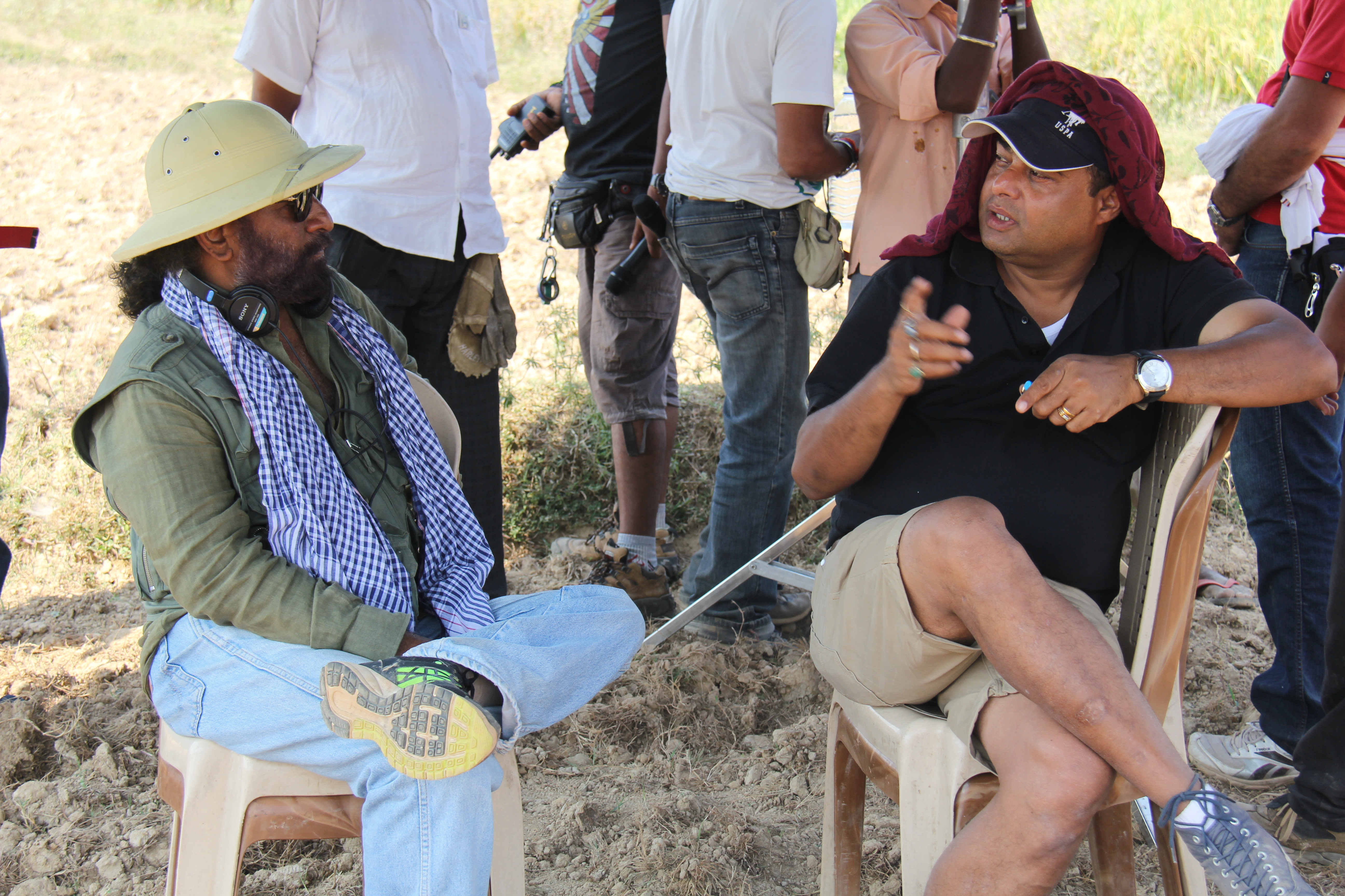 Rajiv Jain and Ketan Mehta during the filming of feature "Manjhi - The Mountain Man"